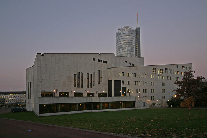 Essen, Germany: Aalto-Theater (opera house by Alvar Aalto), in the background: RWE-Turm by Christoph Ingenhoven